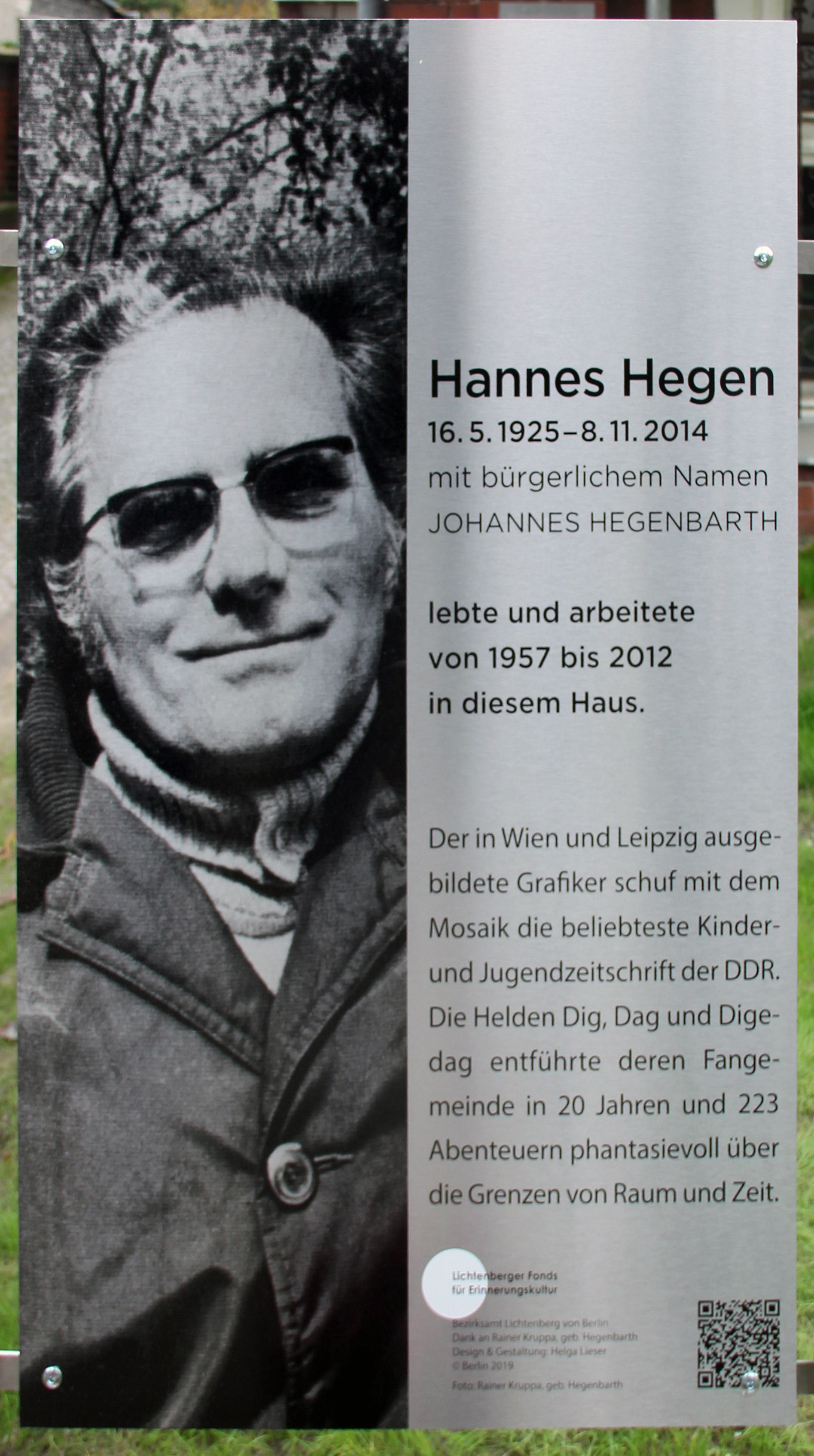 Memorial plaque, Hannes Hegen, Waldowallee 15, Berlin-Karlshorst, Deutschland